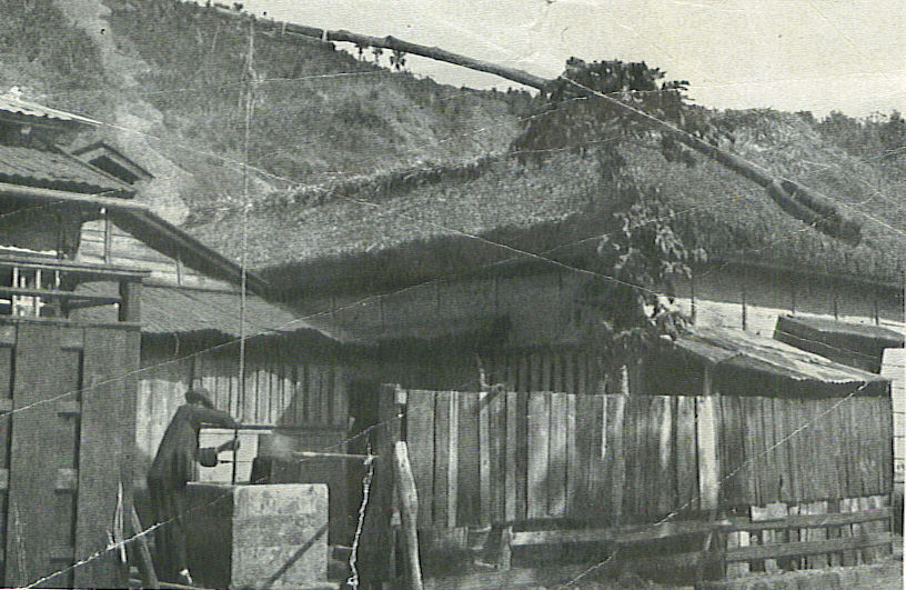 Caption: From a Hand Well a Japanese Dips Water in the Village." This photograph shows the man at the well; and it also shows the "thatched roofs, weather-beaten unpainted sides, pater partions and windows" which were characteristic of the village in the Ogasawara Islands at this time.